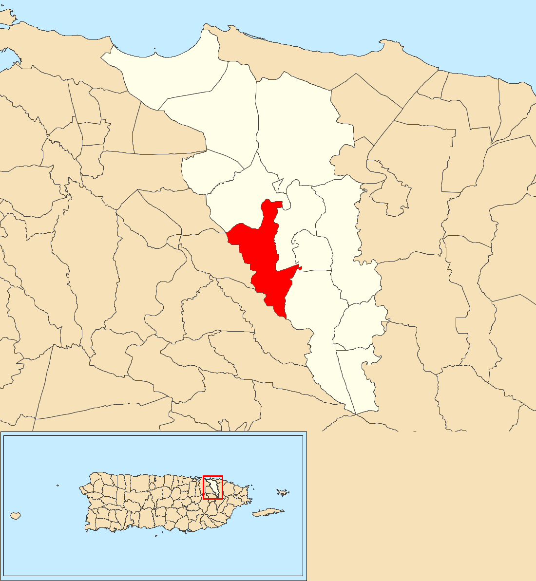 Cacao, Carolina, Puerto Rico locator map